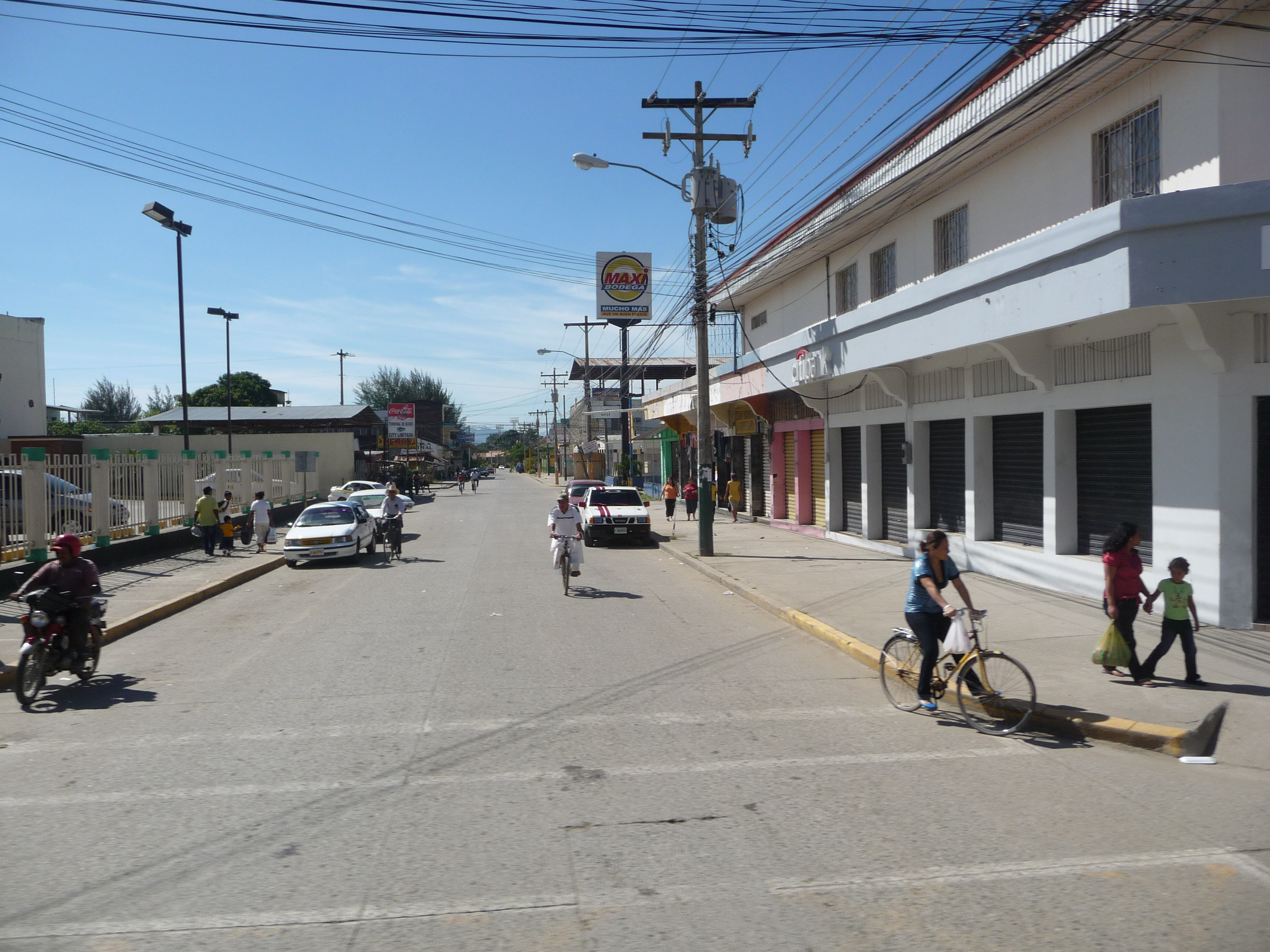 A streetview photo of El Progreso, Honduras